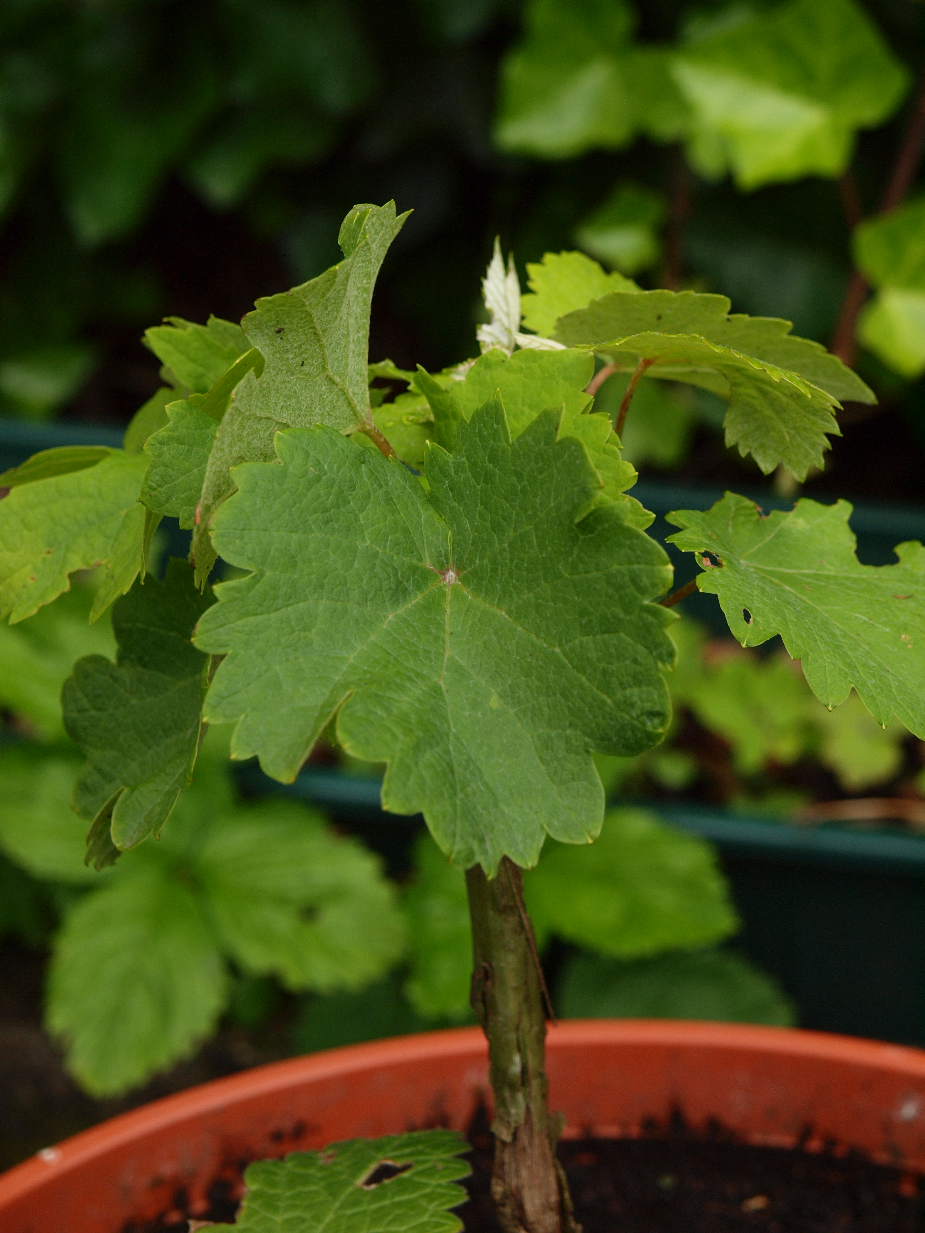 Prokupac wine variety serbia